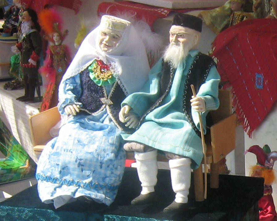 Tatar dolls: Grandma and GrandpaТатарча/tatarça: Татар курчаклары: әби һәм бабай